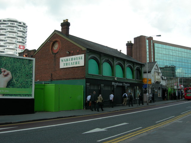 Warehouse Theatre, Dingwall Road, Croydon Due to be demolished and relocated as part of the Croydon Gateway project.